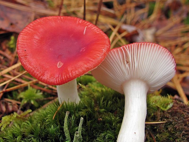 Russula emetica Fr. Location: Oneida Co., New York, USA For more information about this, see the observation page at Mushroom Observer.